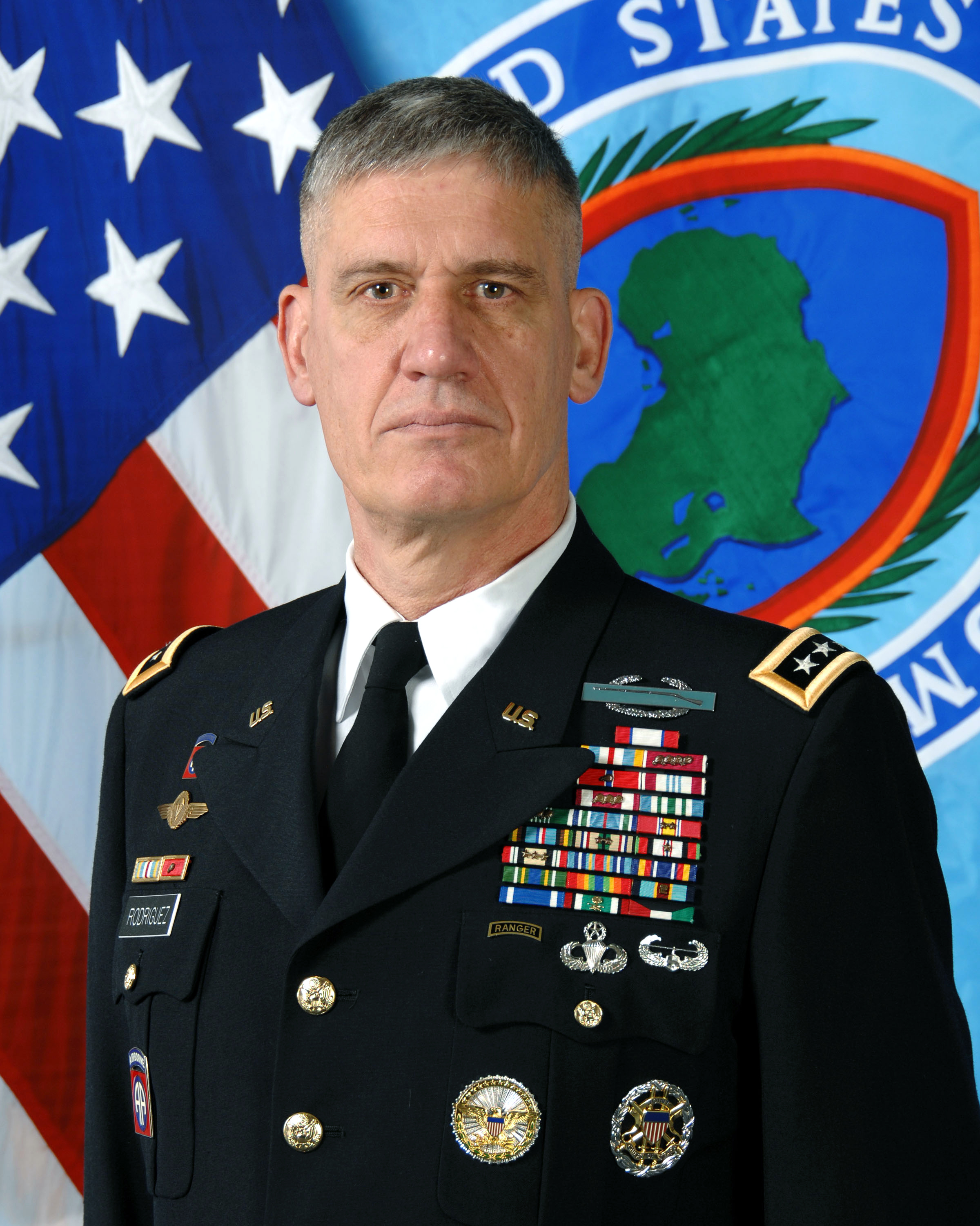 General David M Rodriguez, USA 3rd Commander, U.S. Africa Command